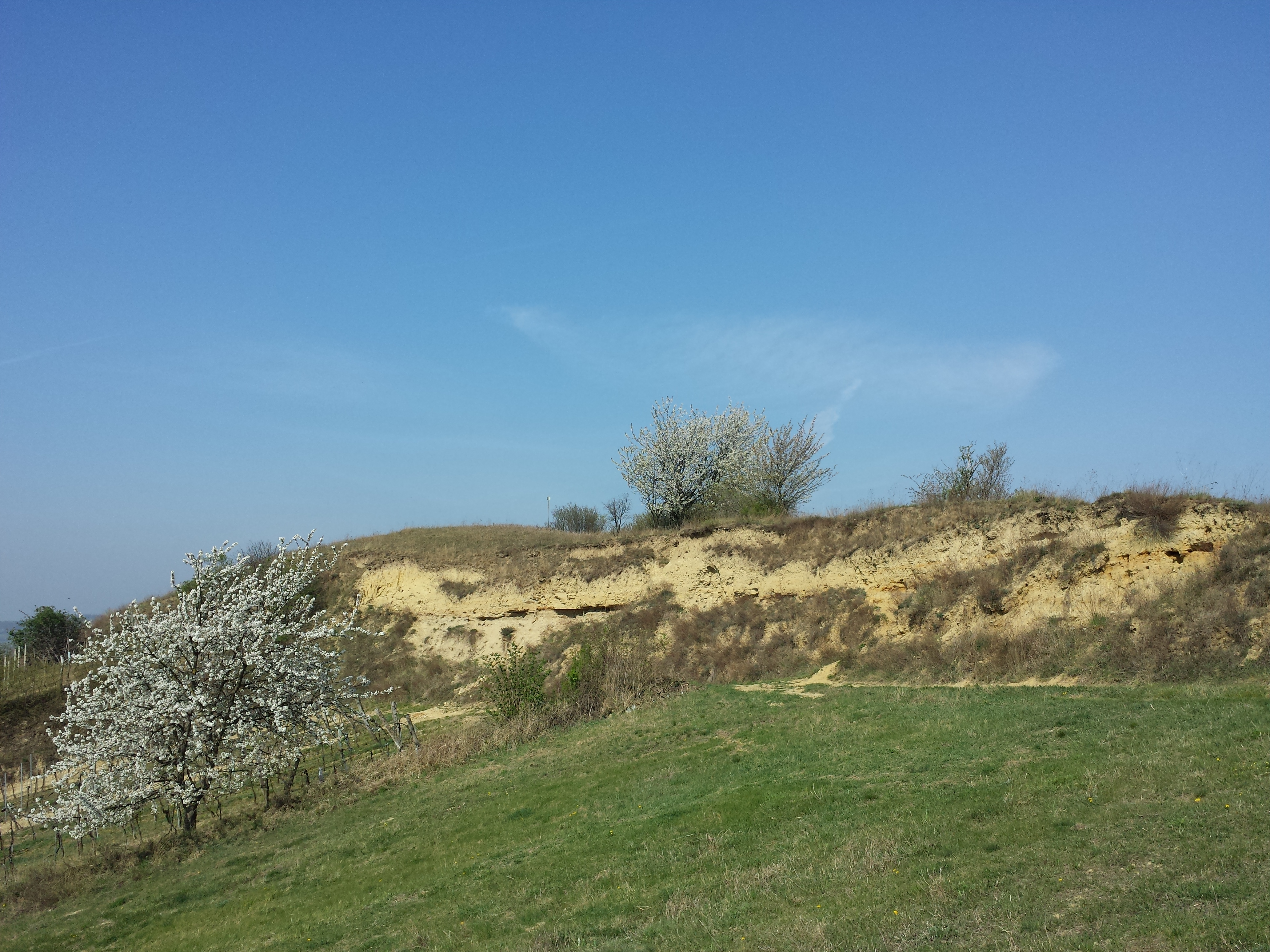 Loess wall near Großebersdorf, district Mistelbach, Lower Austria